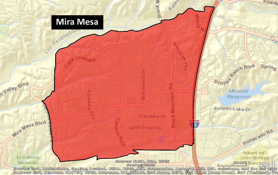 Mira Mesa Neighborhood Map